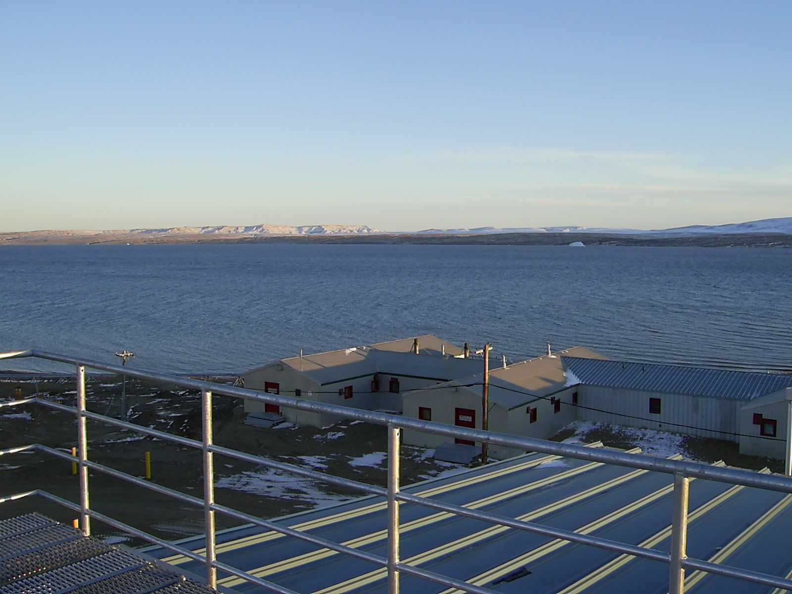 from roof of new operations building